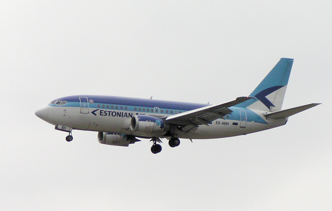 Description: Estonian Air B737-500 ES-ABH in Frankfurt/Main (EDDF), April 2006. Photographer: Arcturus Licence: GFDL + cc-by-sa-2.0-de